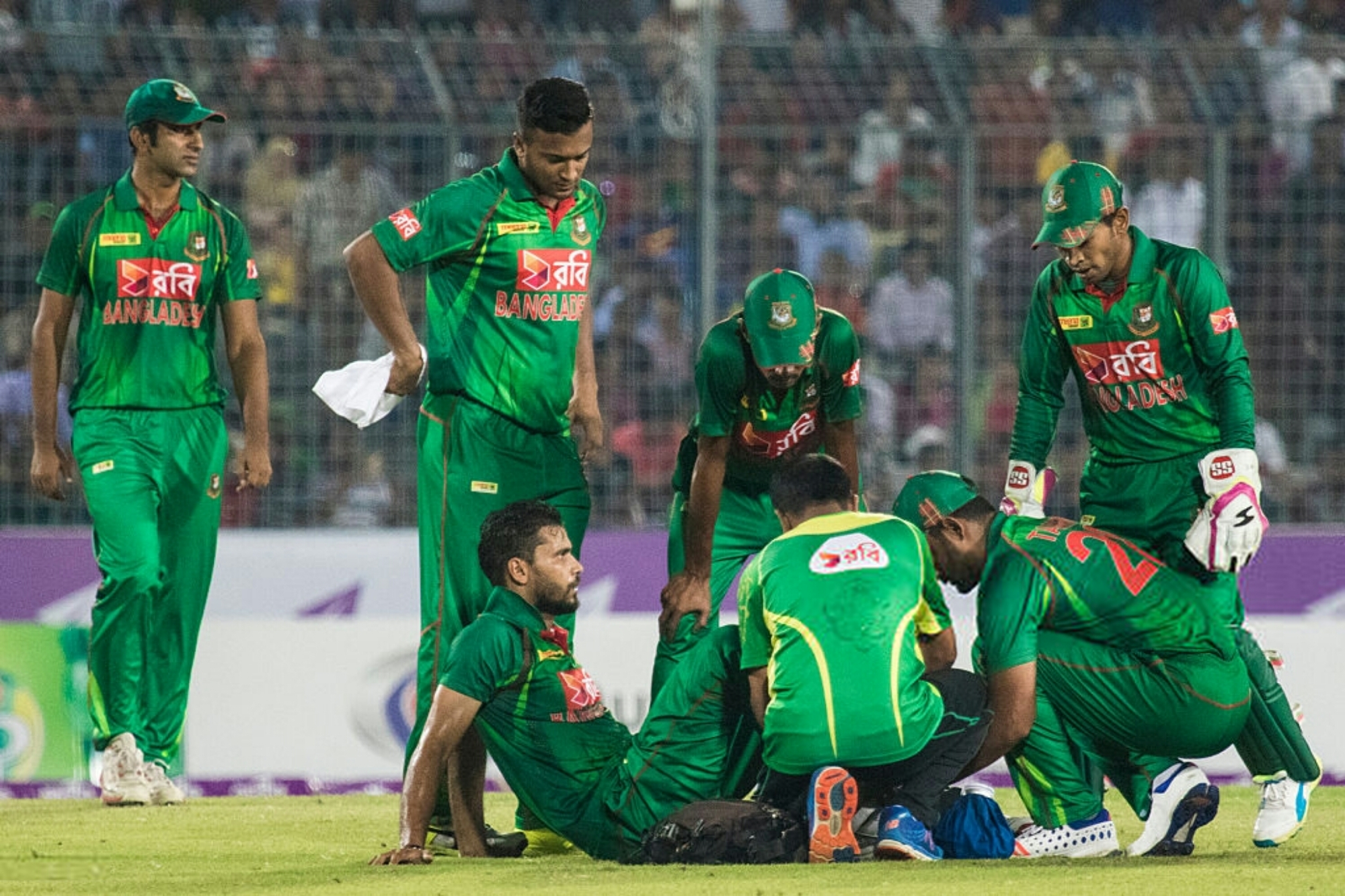 Bangladesh's Captain fall down to the ground during his first bowling spell, during the third one-day international cricket match against Afghanistan in Dhaka, Bangladesh, Saturday, Oct. 1, 2016. (Photo by Ahmed Salahuddin/NurPhoto via Getty Images)